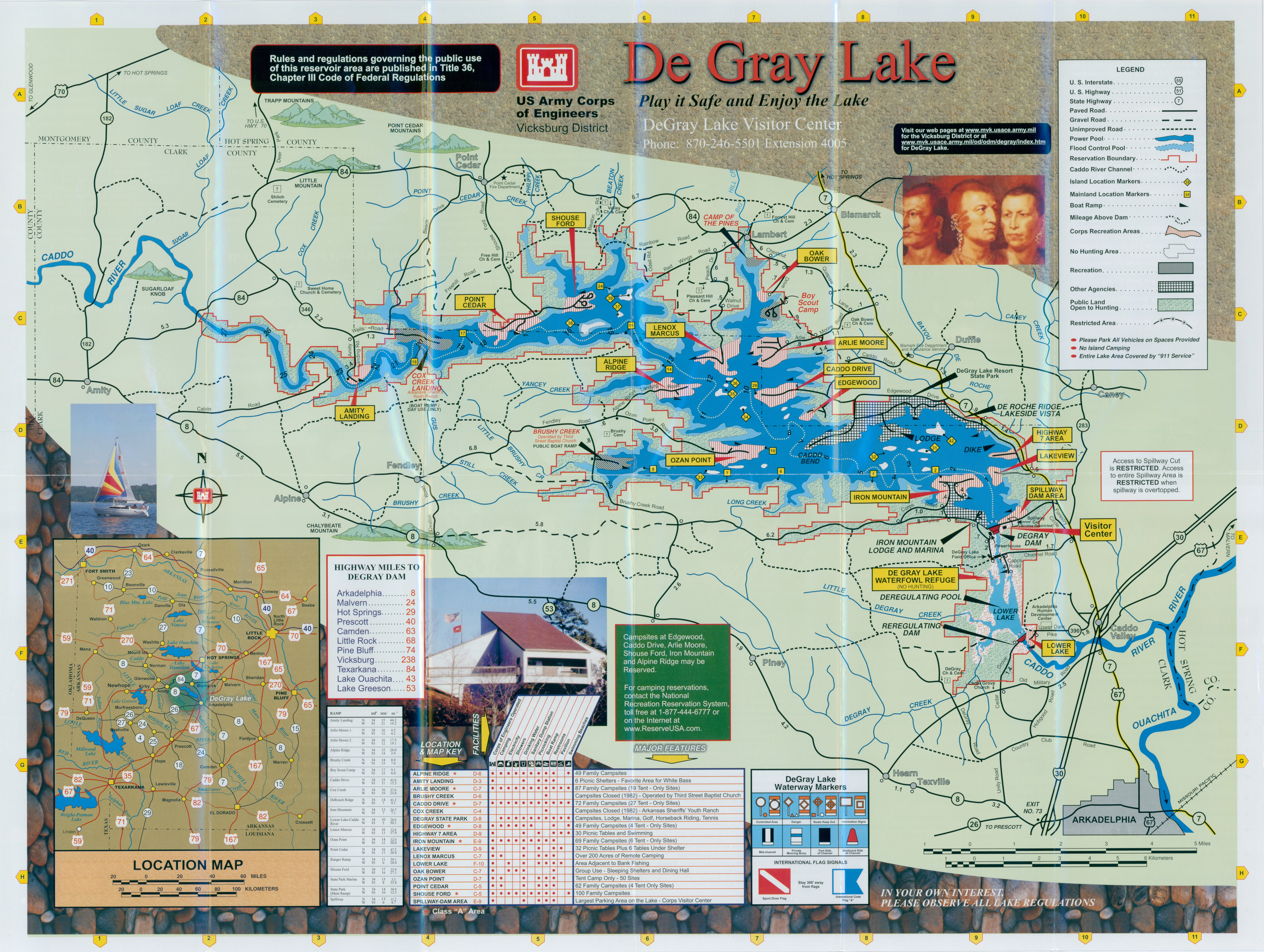 Map of DeGray Lake offered from USACE